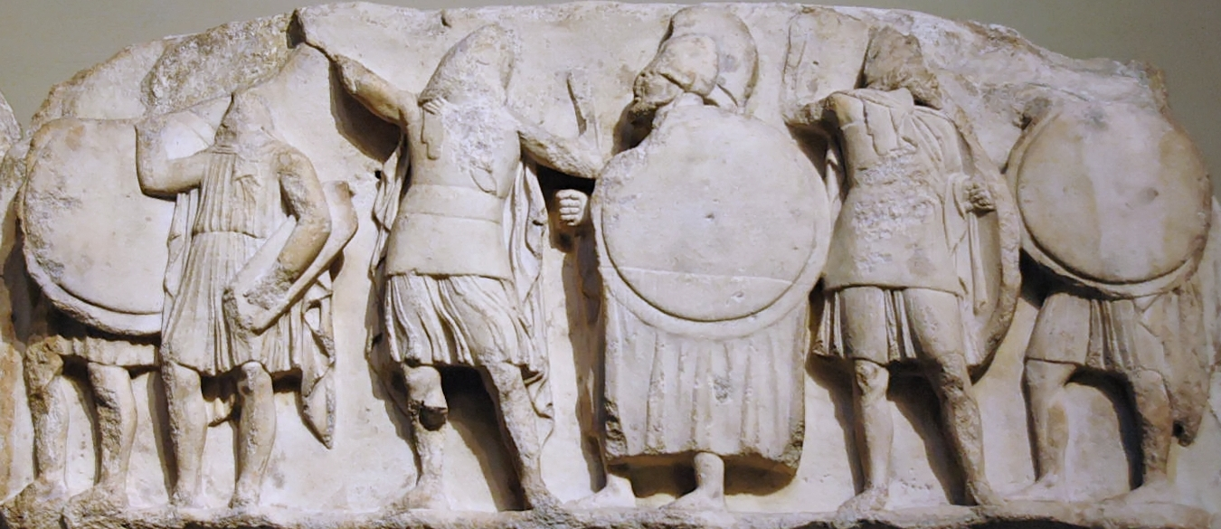 Warriors. Panel of the lesser podium frieze from the Nereid Monument at Xanthos in Lycia, ca. 390–380 BC.